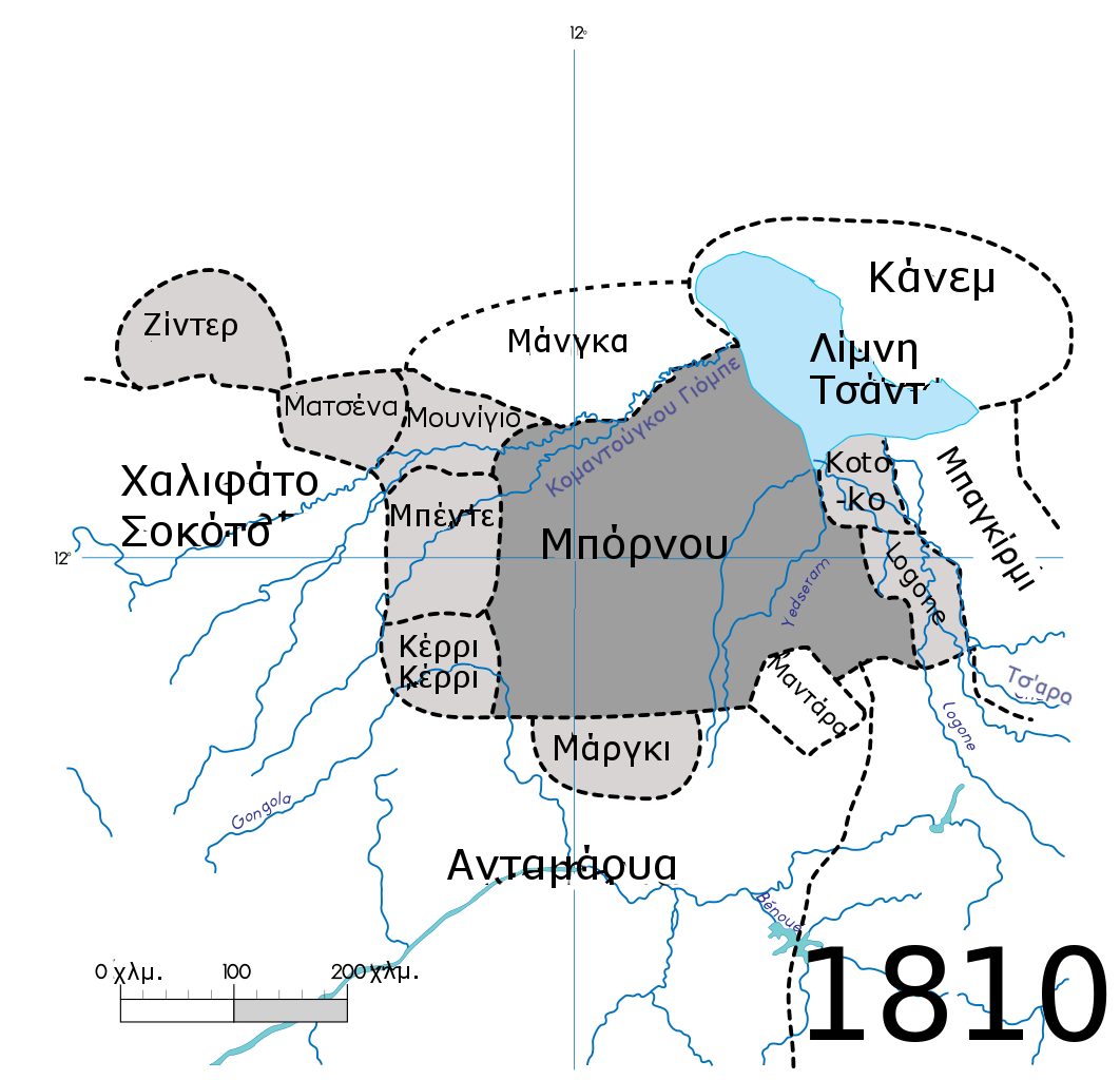 Η αυτοκρατορία του Μπόρνου το 1810